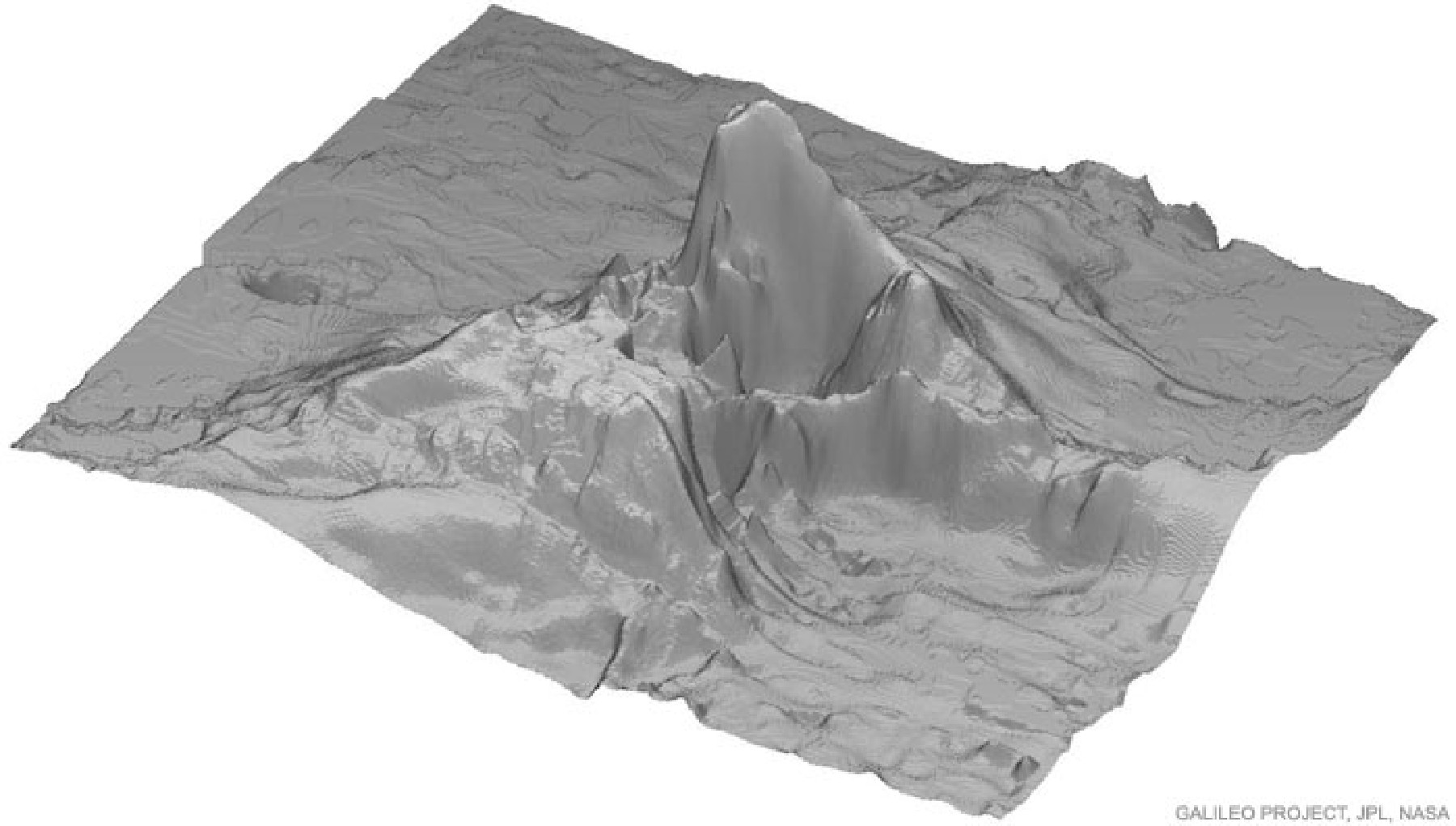 Tohil Mons on Jupiter's moon Io.